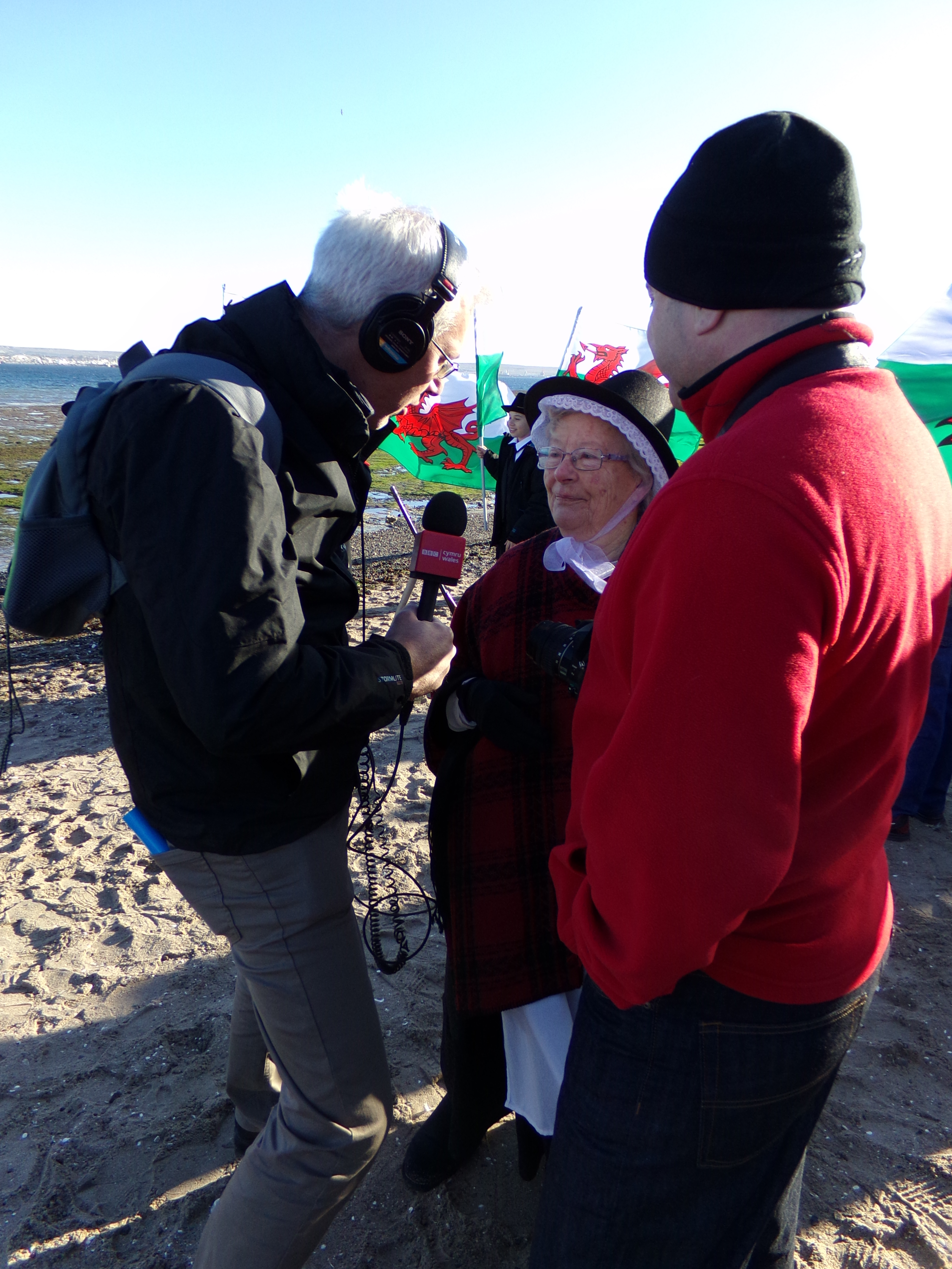 BBC Wales present in the sesquicentennial of the Welsh colony in Chubut, Patagonia, Argentina.